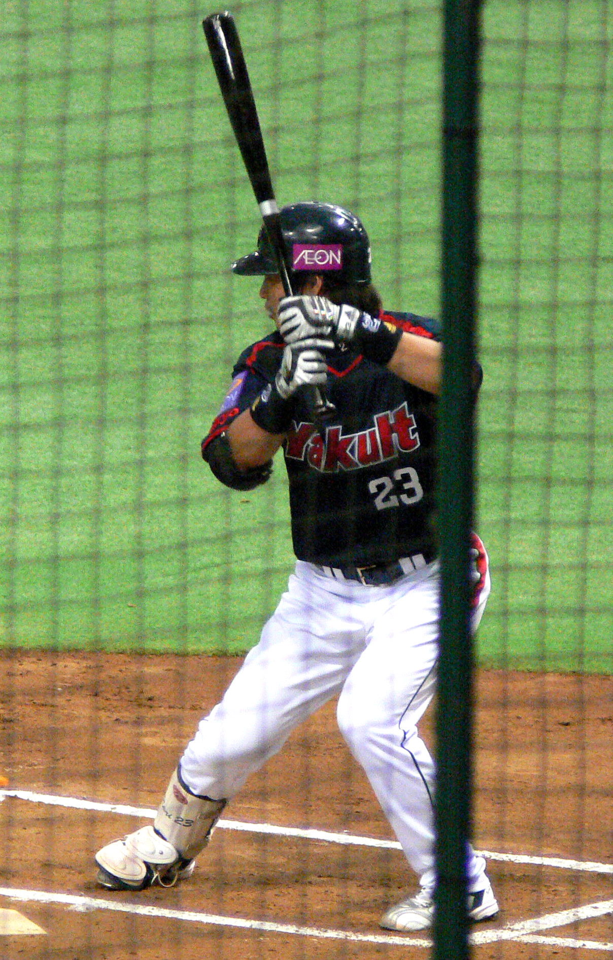 Norichika Aoki of the Yakult Swallows bats against the MLB All-Star team on November 4, 2006, in Game 2 of the Major League Baseball Japan All-Star Series at Tokyo Dome.